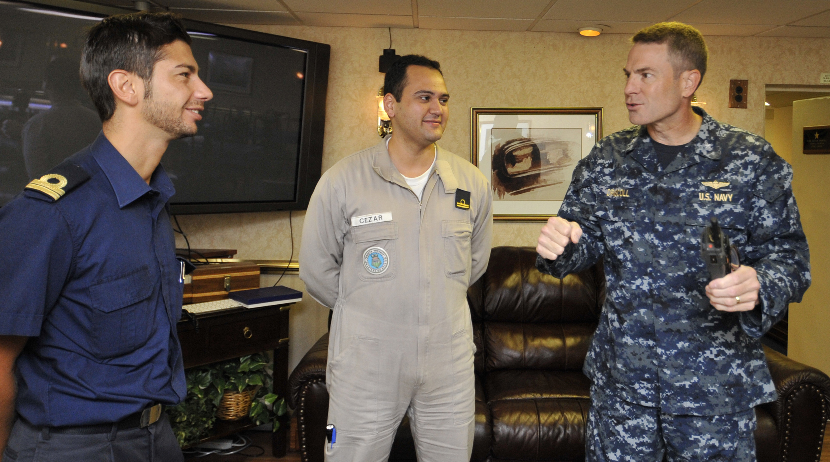 ATLANTIC OCEAN (Sept. 20, 2009) Rear Adm. Patrick Driscoll, commander of Carrier Strike Group 10, chats with Liaison Officers; Lt. Carlo Fraggiana from Italy and Lt. Cezar Santos from Brazil aboard the aircraft carrier USS Harry S. Truman (CVN 75). Harry S. Truman is underway participating in the scenario-driven, tactical, Joint Task Force Exercise. (U.S. Navy photo by Mass Communication Specialist 3rd Class Kilho Park/Released)